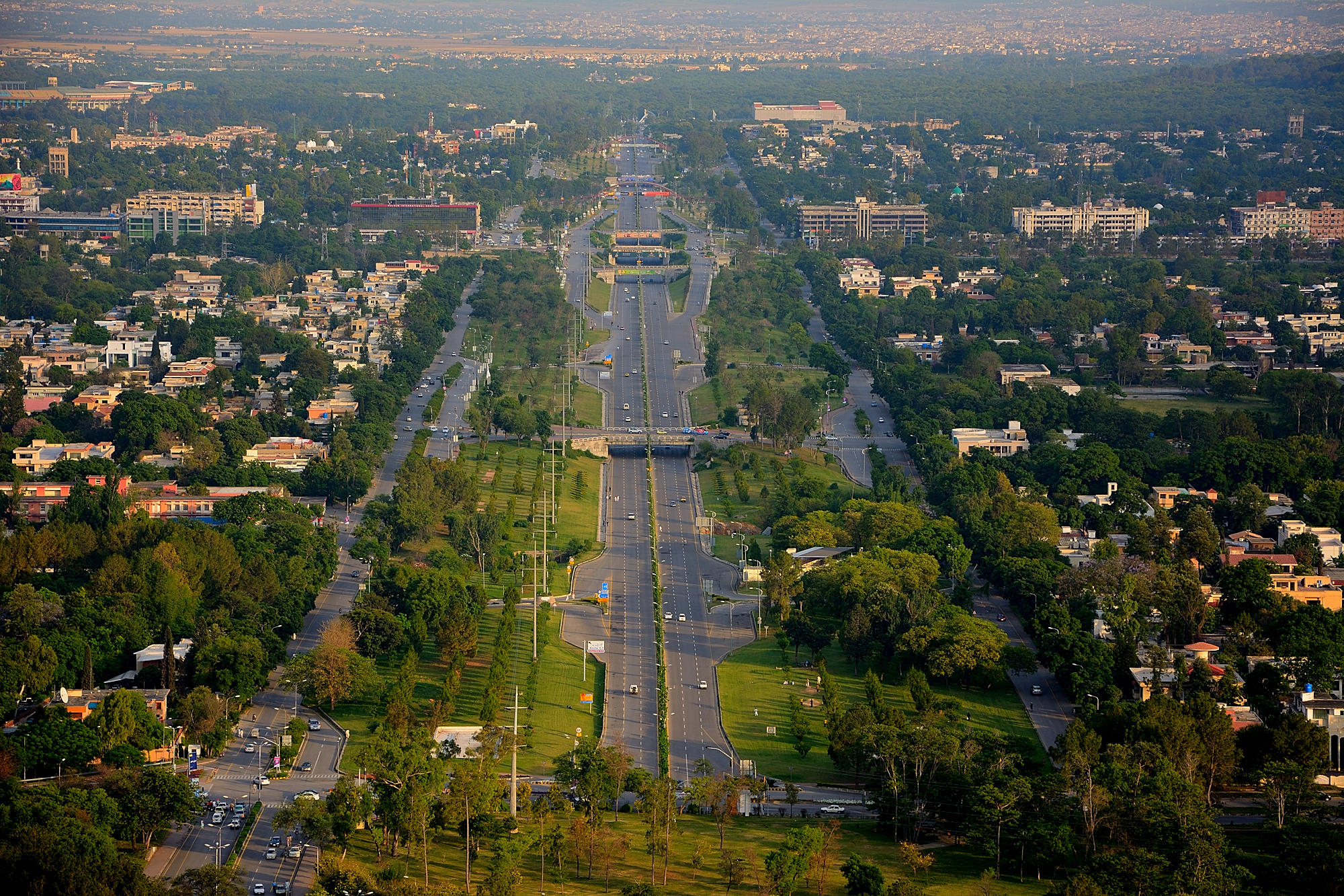 A lush green view of 7th Avenue on a clear evening shot from Daman e Koh